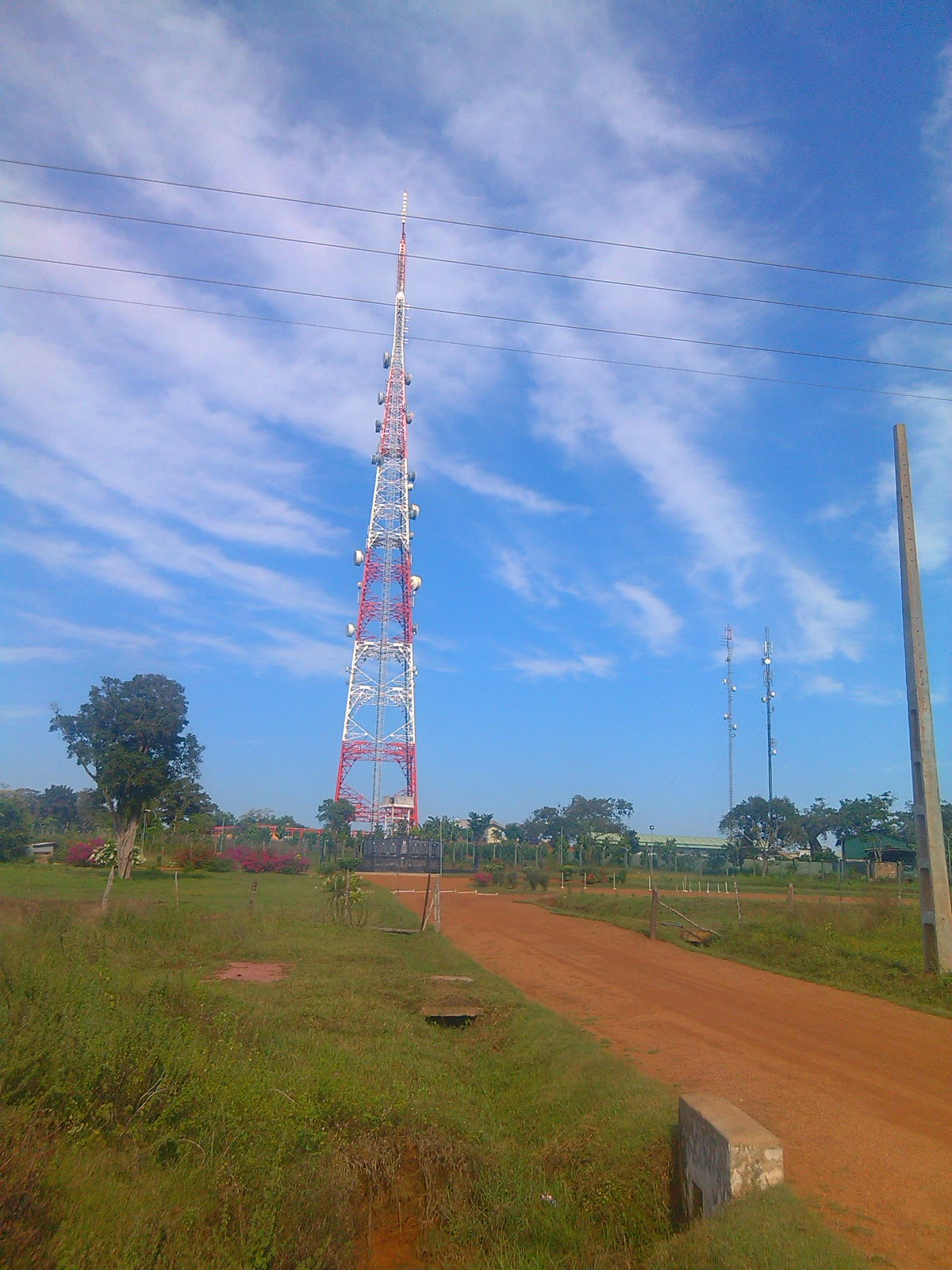 Kokavil transmission tower, Sri Lanka, view from A9 road